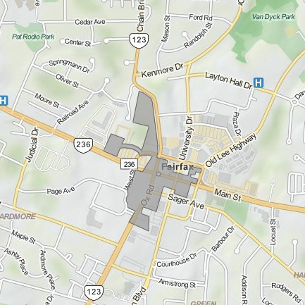 Area of Fairfax Historic District. Map image from open source map site. Shading made with Photoshop Elements.